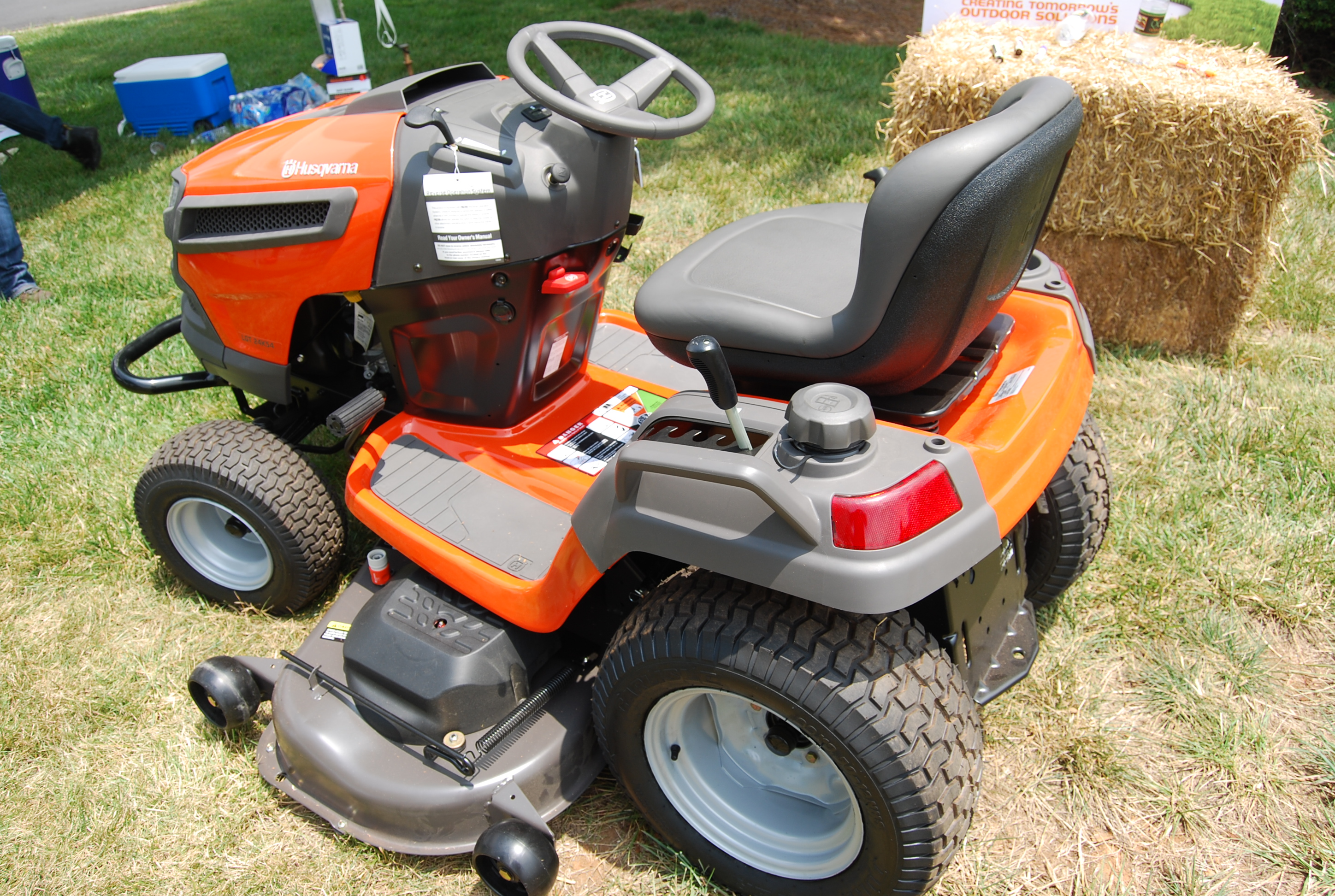 Husqvarna riding mower/small lawn tractor – Select media were invited to test the 2011/2012 product lineup from Husqvarna Outdoor Power Equipment.